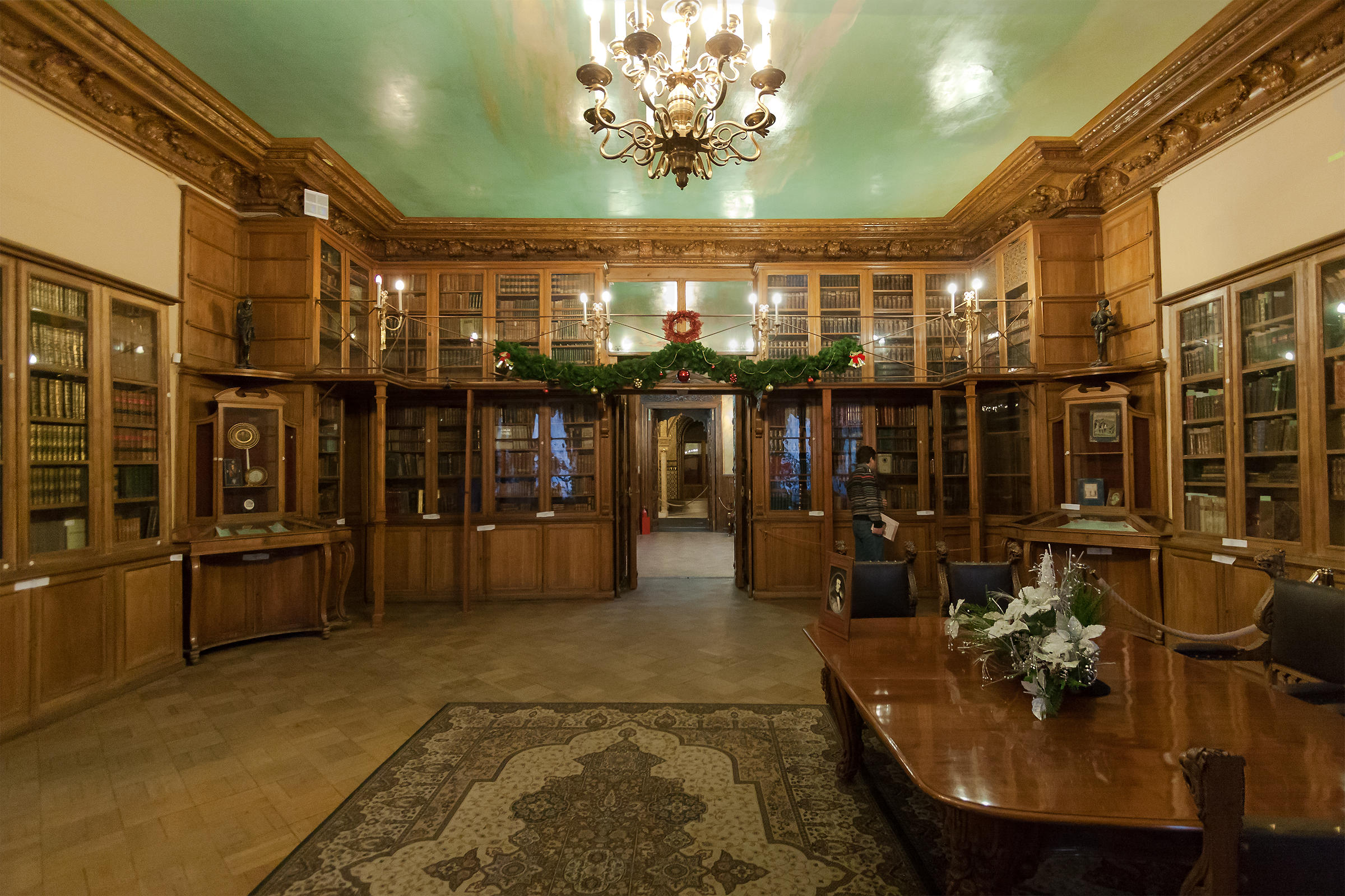 Office (and library) of Prince Yusupov